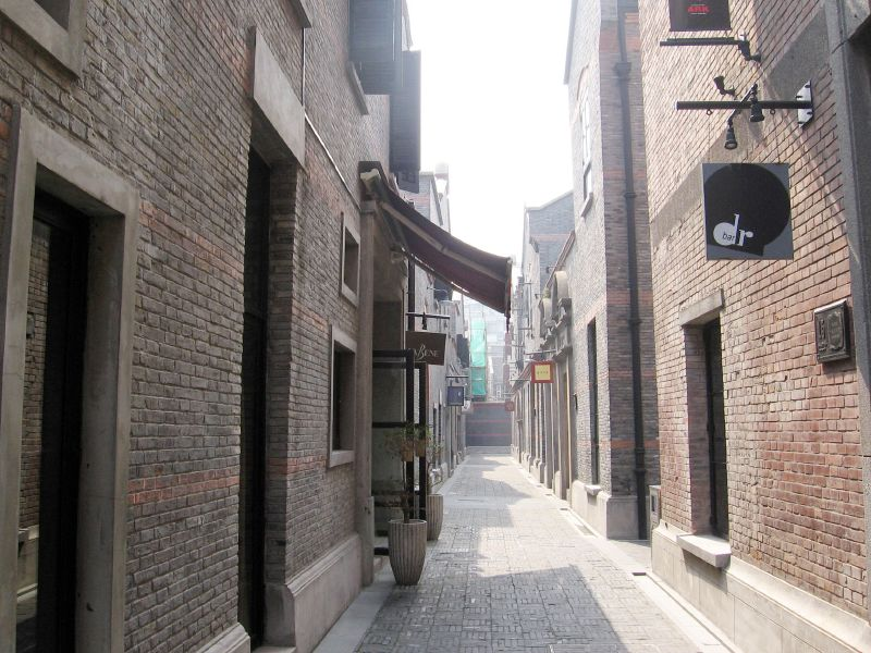 Photo by Gem. Xintiandi lanes in Shanghai.